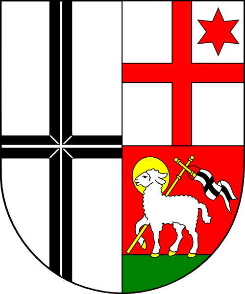 Coat of arms (shield only) of Philipp Cardinal Krementz, bishop of Warmia, Poland (1867 - 1886), archbishop of Cologne, Germany (1885 - 1899).